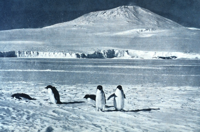 Penguins and Mount Erebus, McMurdo Sound, Antarctica.